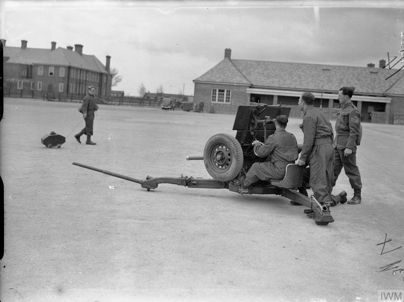 The British Army in the United Kingdom 1939-45 Royal Artillery recruits train on the 2-pdr anti-tank gun, 22 April 1941. The target is a model tank being pulled along on a length of string!